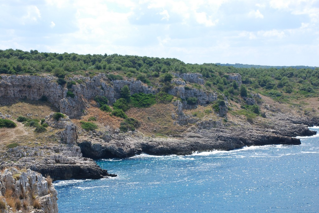 Along the coast there are caves with primitive incisions (about 10000 years bc)!